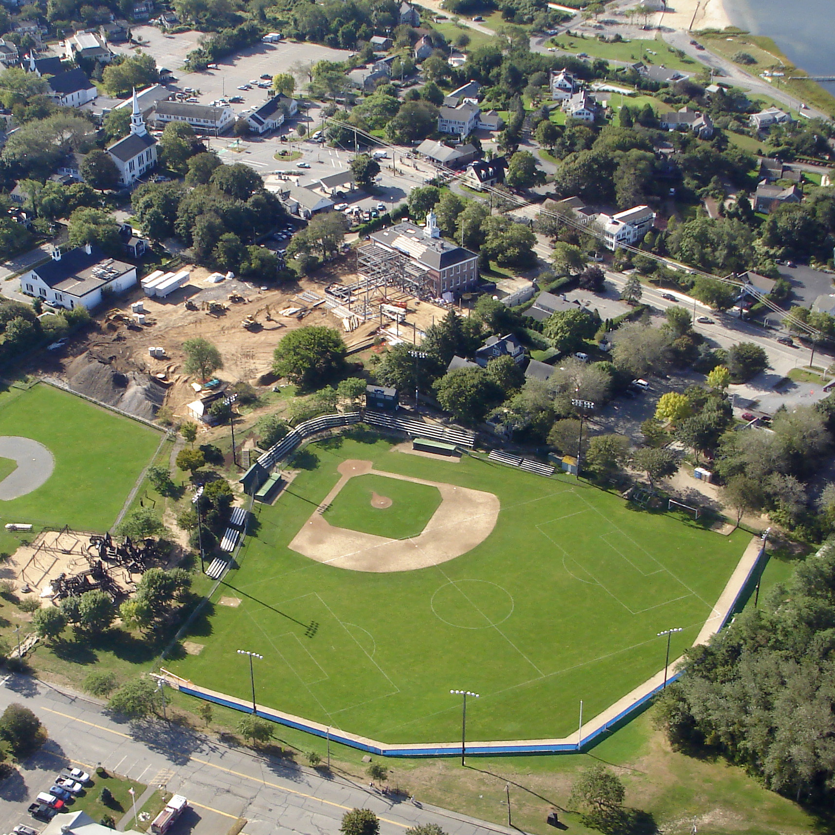 Veteran's Field, Chatham, MA Home of the Chatham Athletics